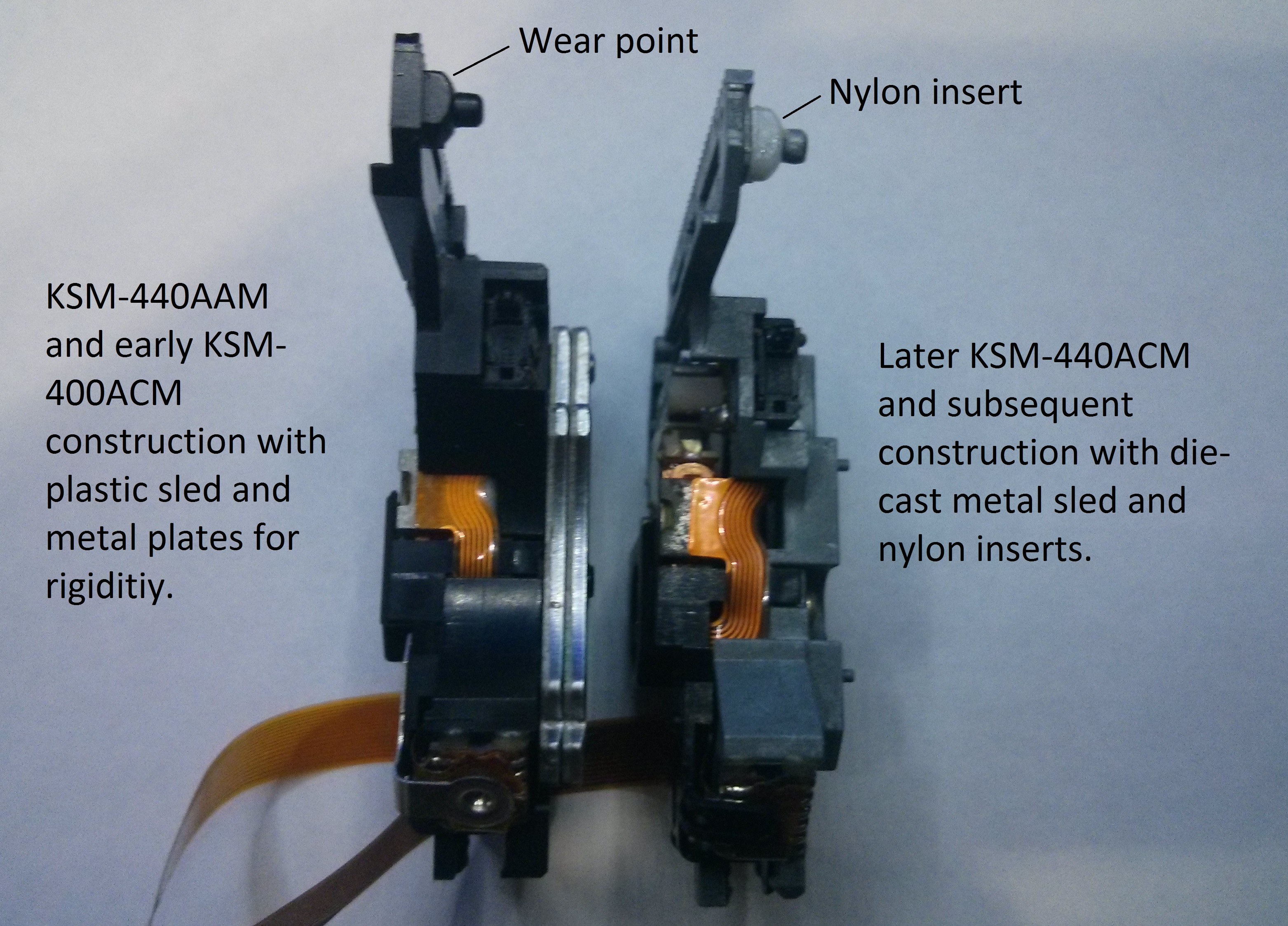 Comparison photograph of original and improved versions of the optical pickup assembly for the original Sony PlayStation.